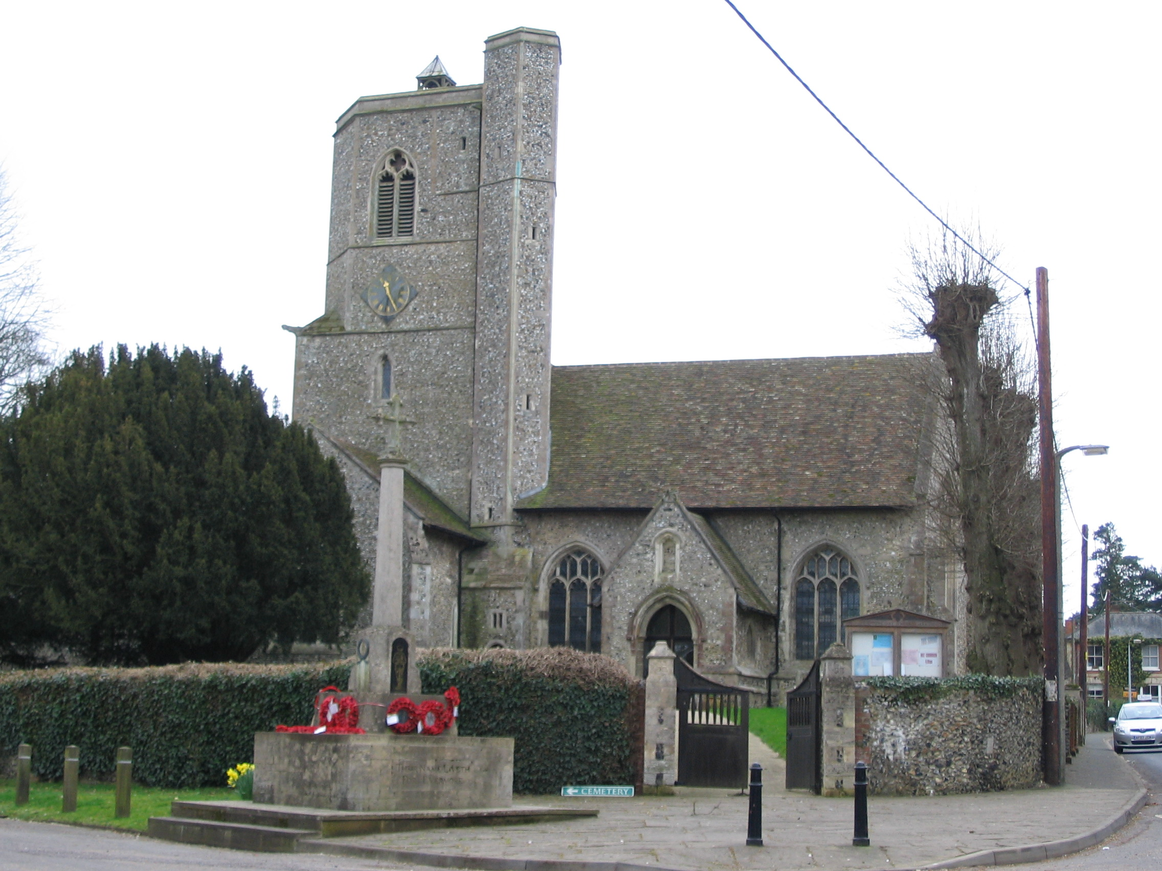 Parish church of St Mary and The Holy Host of Heaven, Cheveley, Cambridgeshire, seen from the north